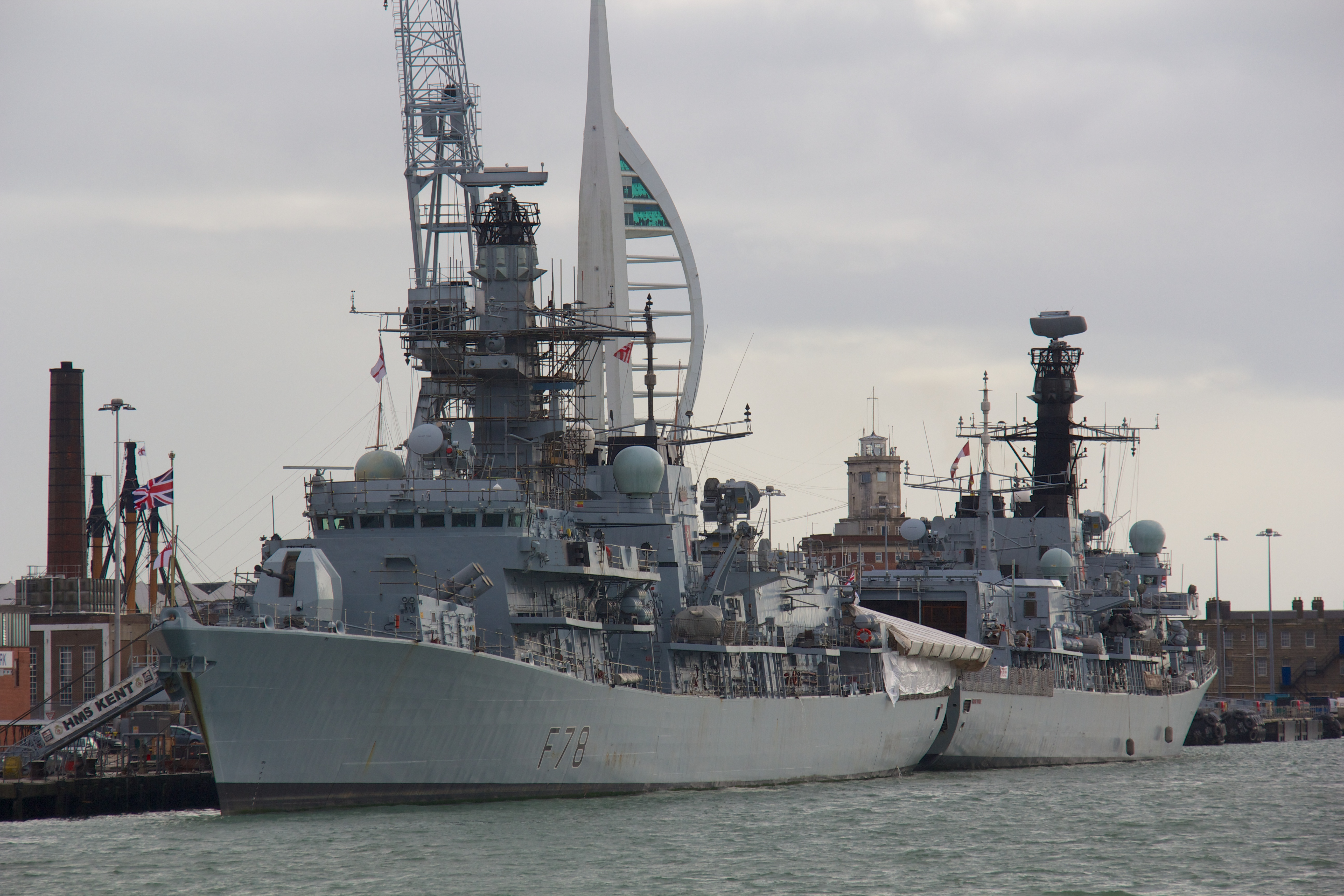 Ships in Portsmouth Harbour on 20th October 2013. HMS Kent (F78) in foreground, HMS Iron Duke (F234) in background.